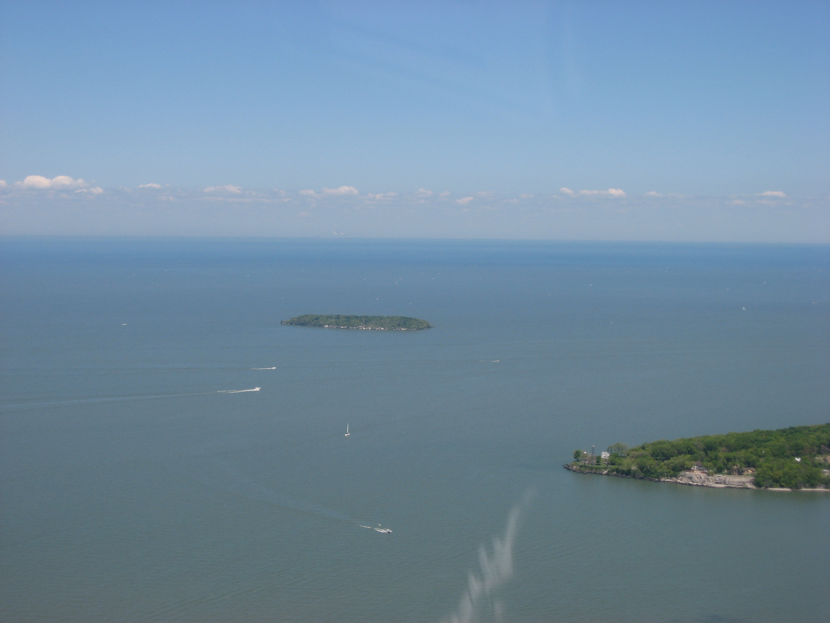 Green Island, a small island just off South Bass Island, one of the Lake Erie Islands, in Ottawa County, Ohio, United States. Picture taken from a Diamond Eclipse light airplane at an altitude of 1,400 feet MSL and a bearing of approximately 115º.